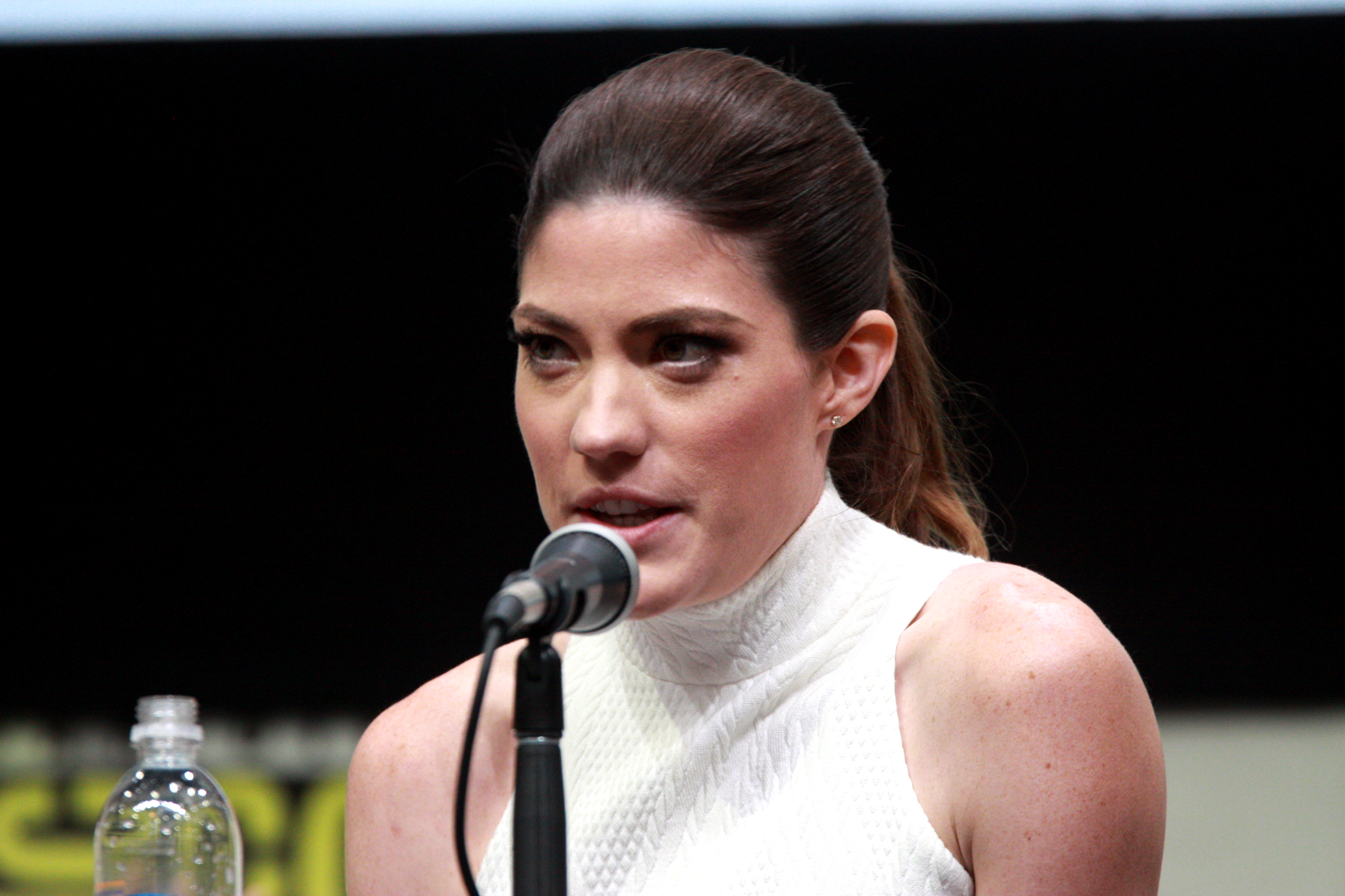 Jennifer Carpenter speaking at the 2013 San Diego Comic Con International, for "Dexter", at the San Diego Convention Center in San Diego, California.